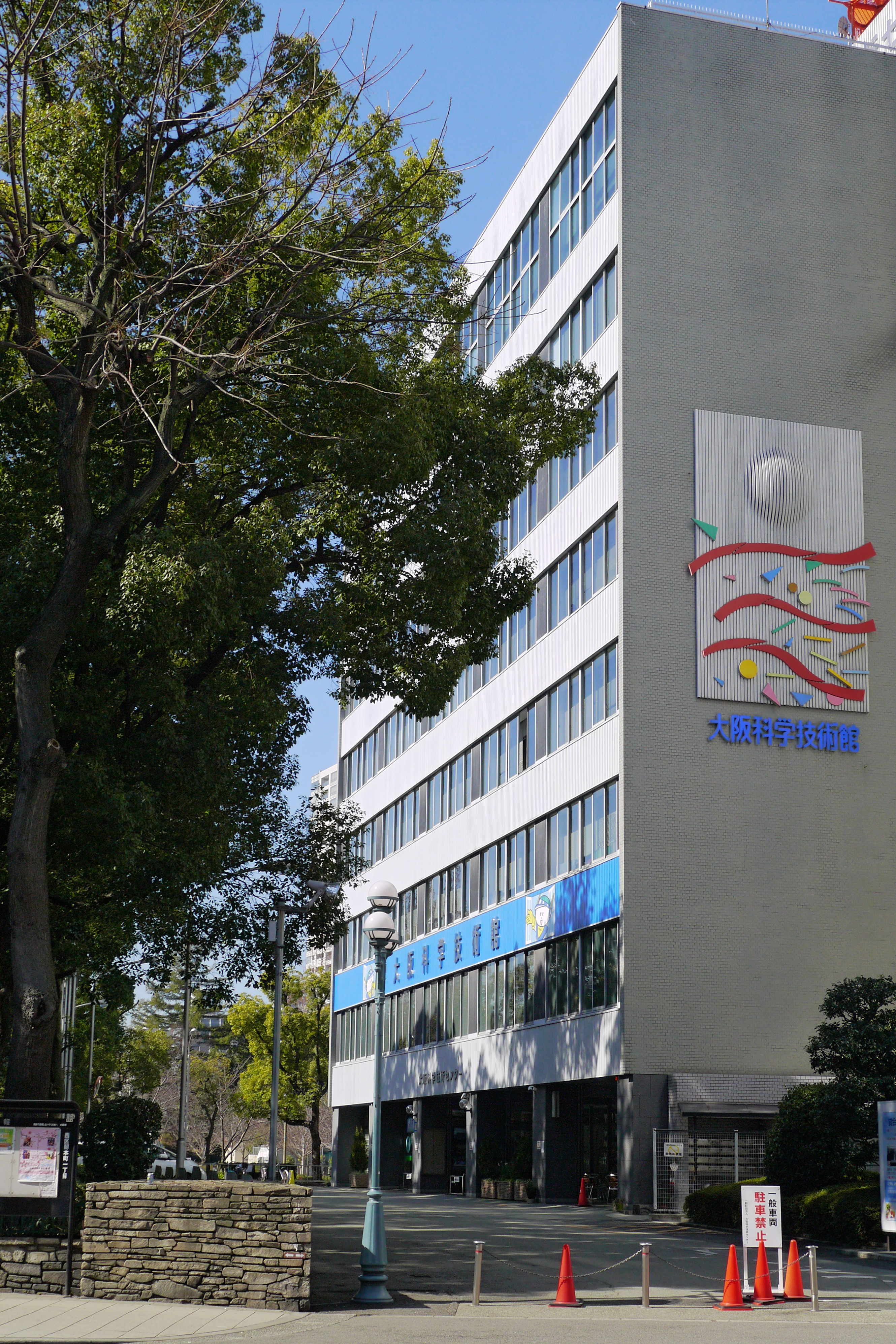 OSTEC Exhibition Hall (大阪科学技術館), Osaka, Osaka prefecture, Japan